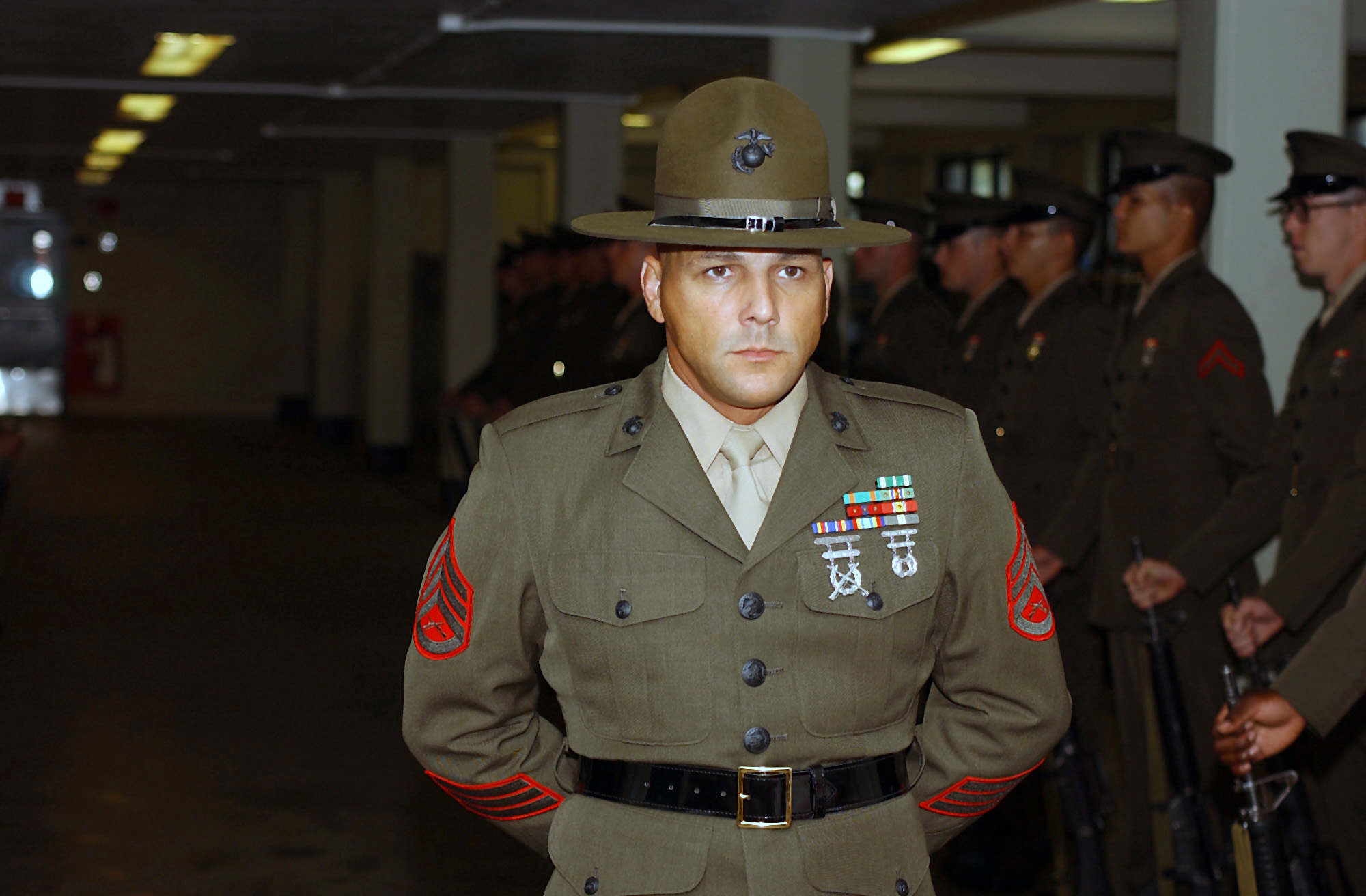 US Marine Corps Senior Drill Instructor Staff Sergeant T. Warren, Platoon 1057, Bravo Company, 1st Recruit Training Battalion, stands at parade rest while waiting for the Battalion Commander aboard Marine Corps Recruit Depot Parris Island, South Carolina. The Battalion Commander is inspecting the B CO recruits as they wrap up their final week of recruit training.